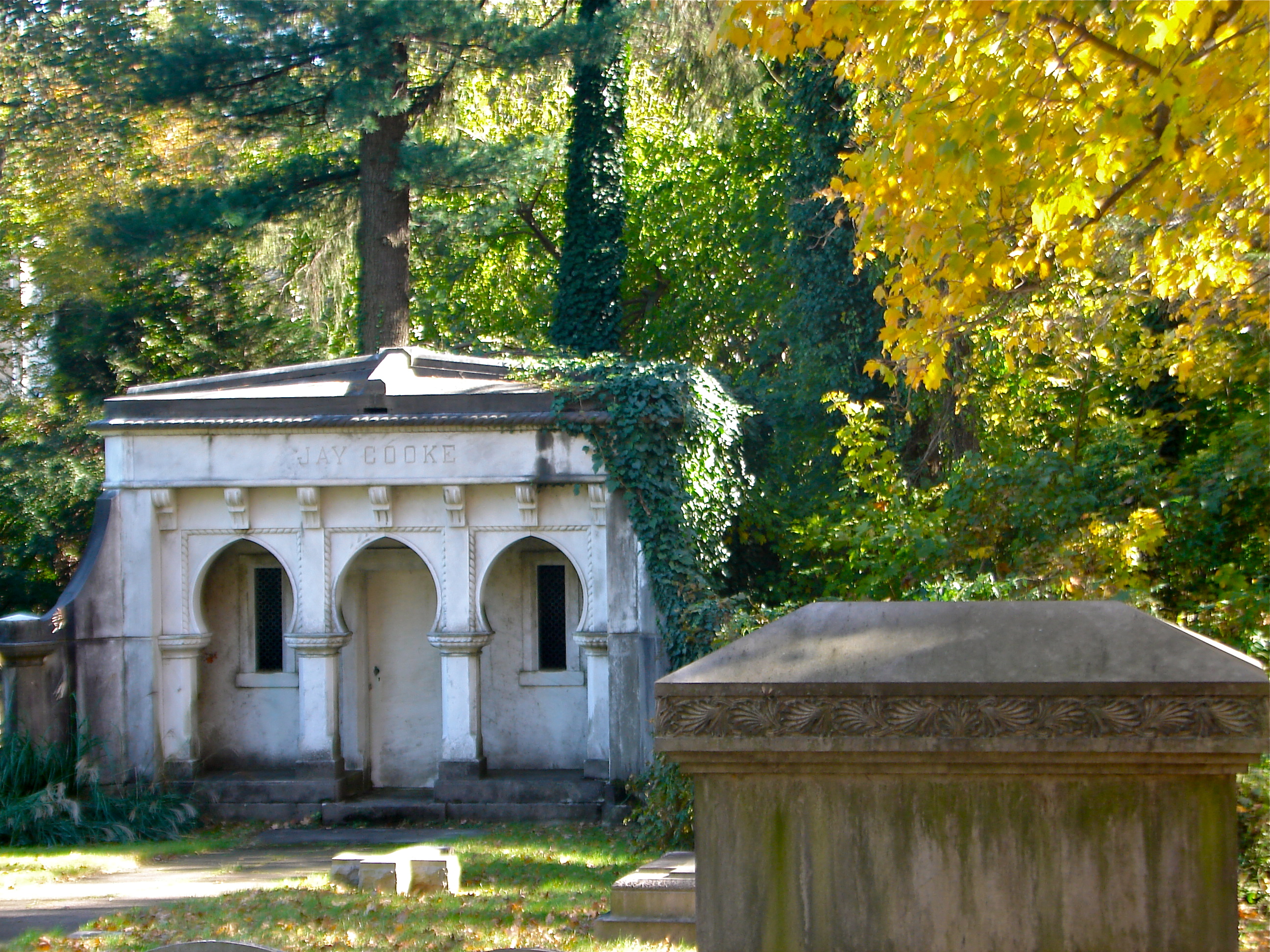 The mausoleum of Civil War financier Jay Cooke in Elkins Park, Montgomery County, Pennsylvania. Part of the cemetery at St. Paul's Episcopal Church, on the NRHP, which Cooke paid for.